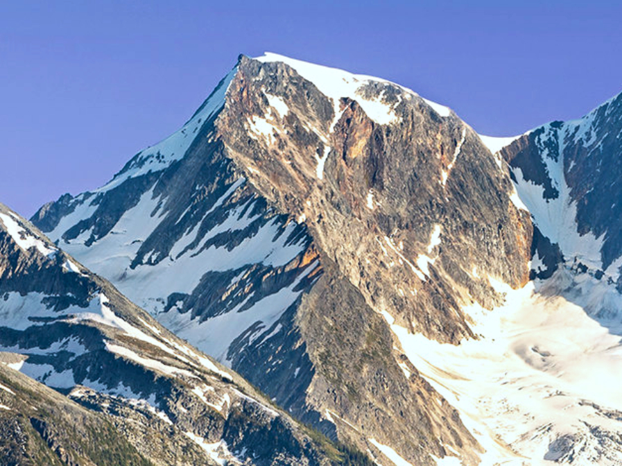 summit of Mount Swanzy